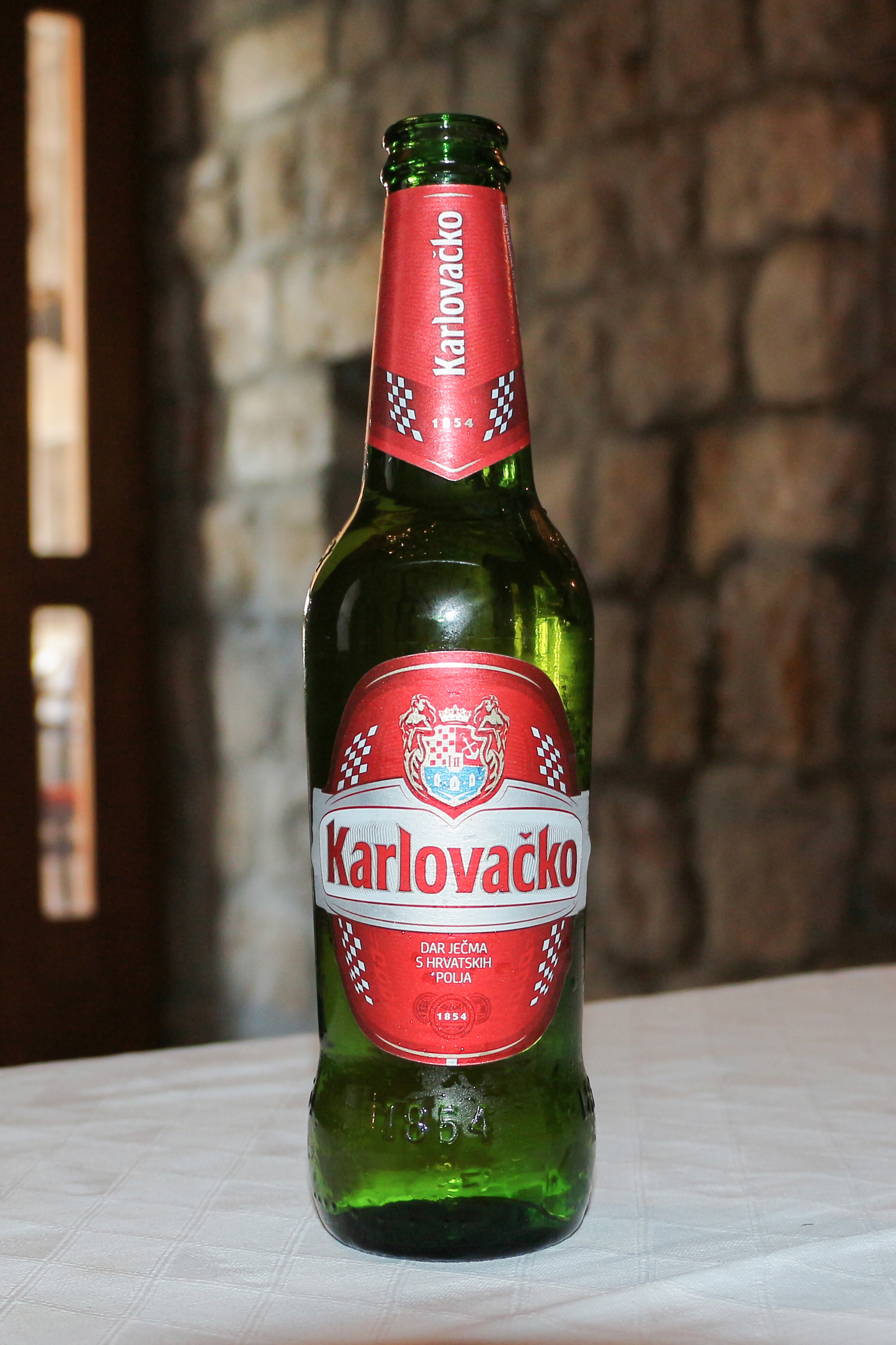 Bottle of Karlovačko beer, Ston, Croatia